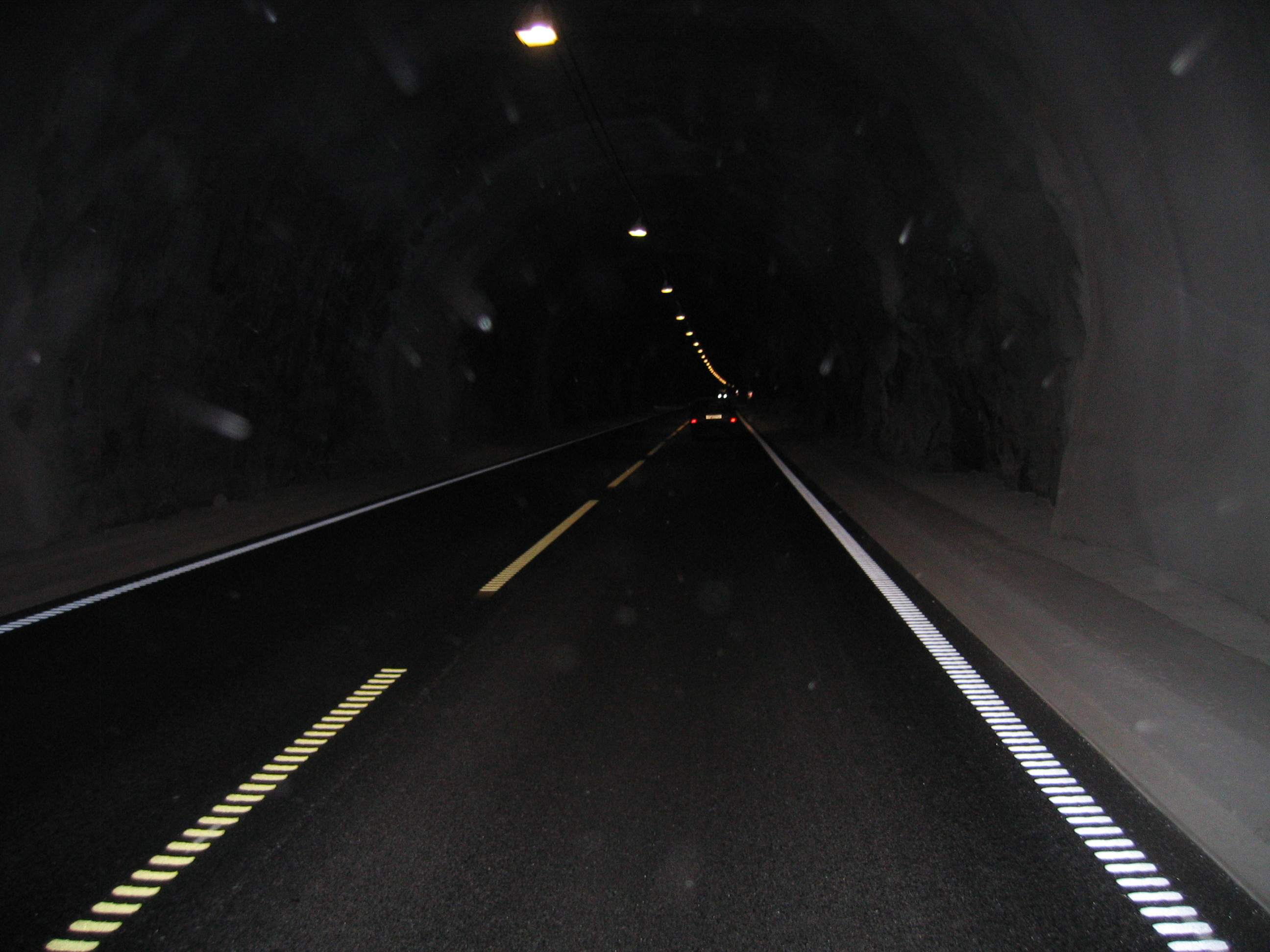 Picture from the inside of the Korgfjelltunnelen. Picture taken by myself on 2005-10-14